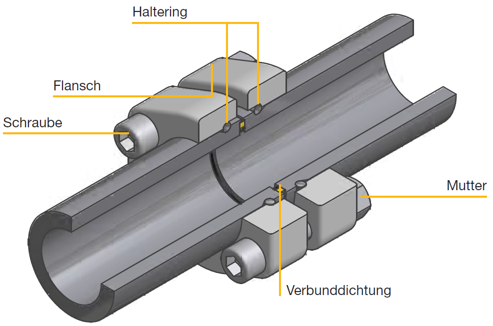 Parflange F37 Retaining Ring Connection